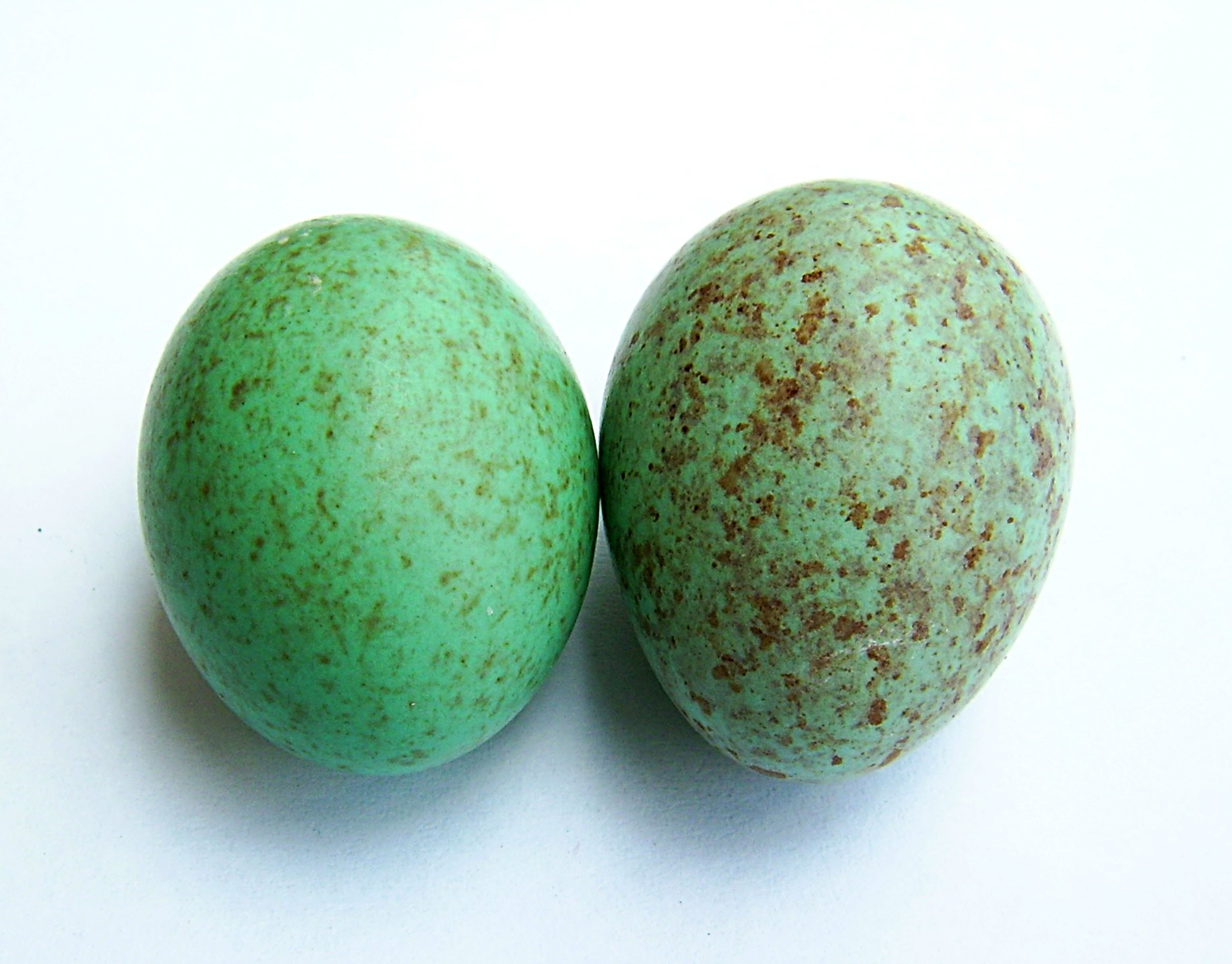 Eggs of Turdus merula